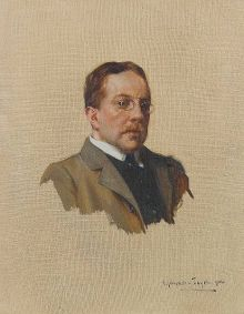 A. C. Tayler's portrait of E. W. Hornung